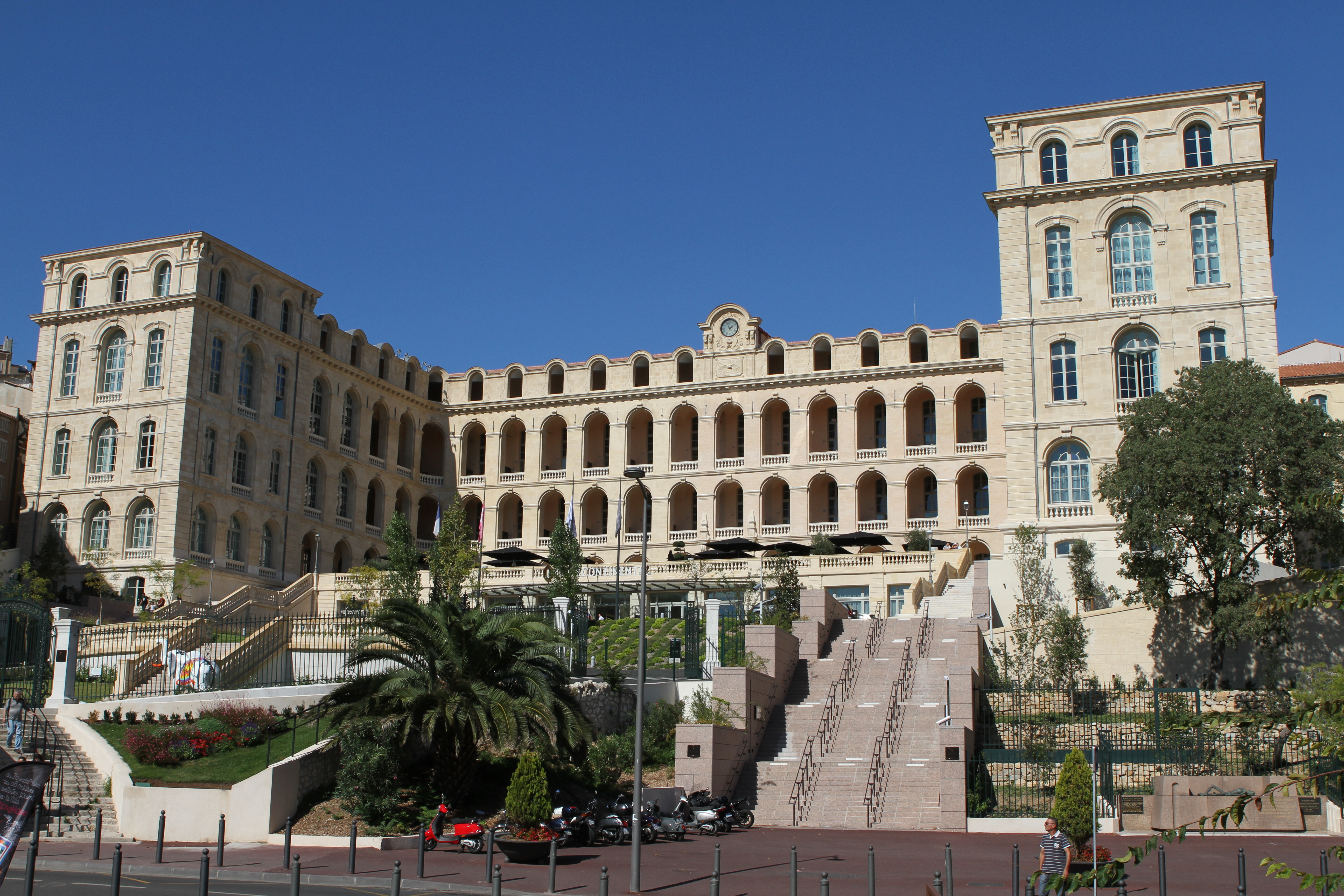 The InterContinental hotel in Marseille (Bouches-du-Rhône, France)